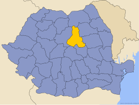 Location of Harghita County in Romania.